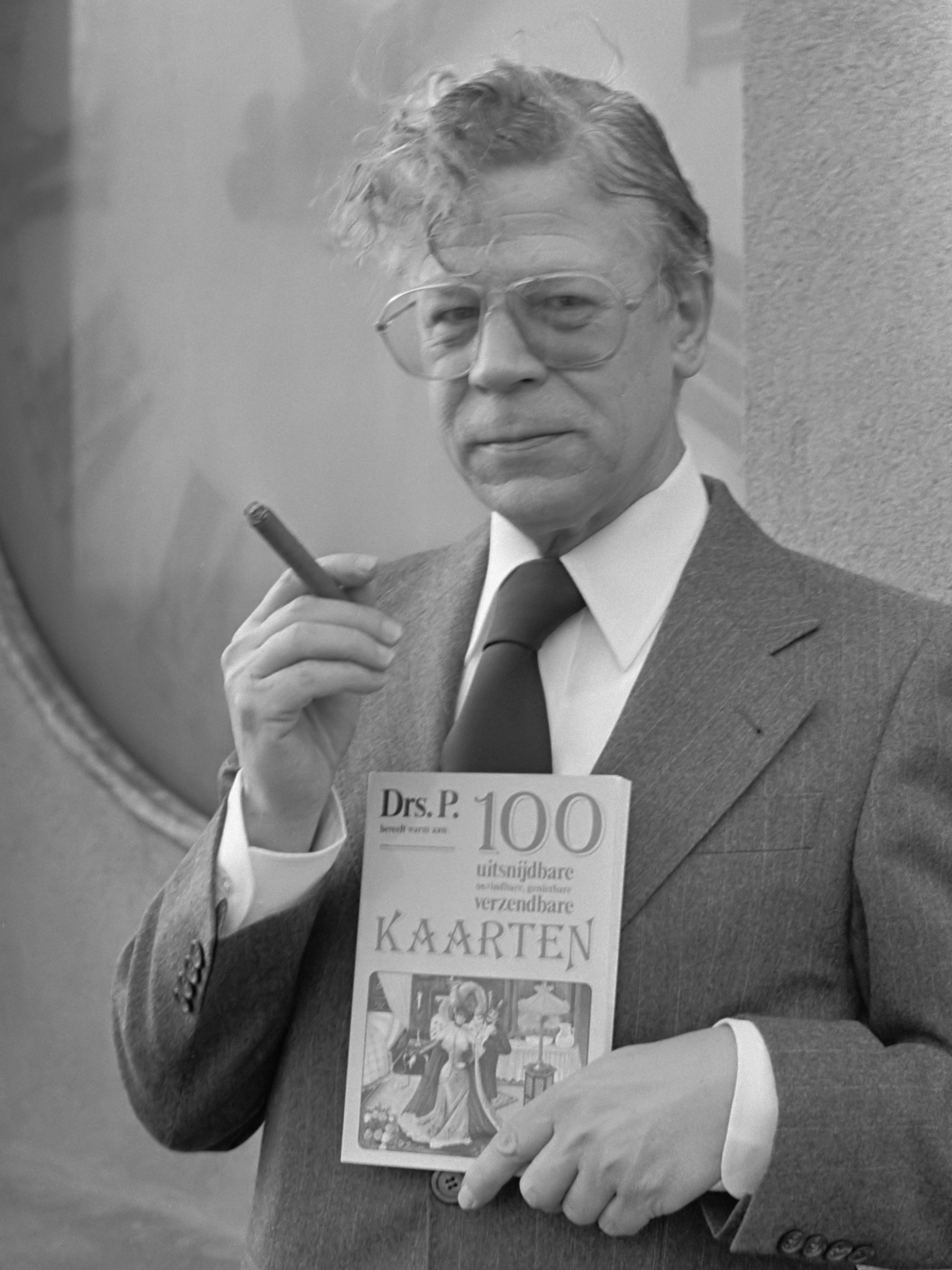 Dr. P. met zijn nieuw boekje "100 uitsnijdbare, onvindbare, etc." bij Metz in Amsterdam 23 november 1977